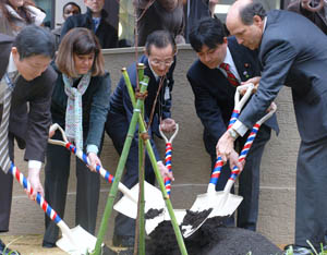 Yōzaburō Ishihara, Member of the House of Representatives, and John Roos, Ambassador to Japan, planted the memorial tree for the victims of Tōhoku earthquake and tsunami at the Embassy of the United States in Tokyo on March 9, 2012.